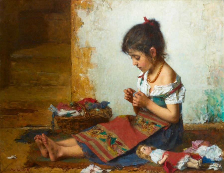 Portrait of a Young Girl